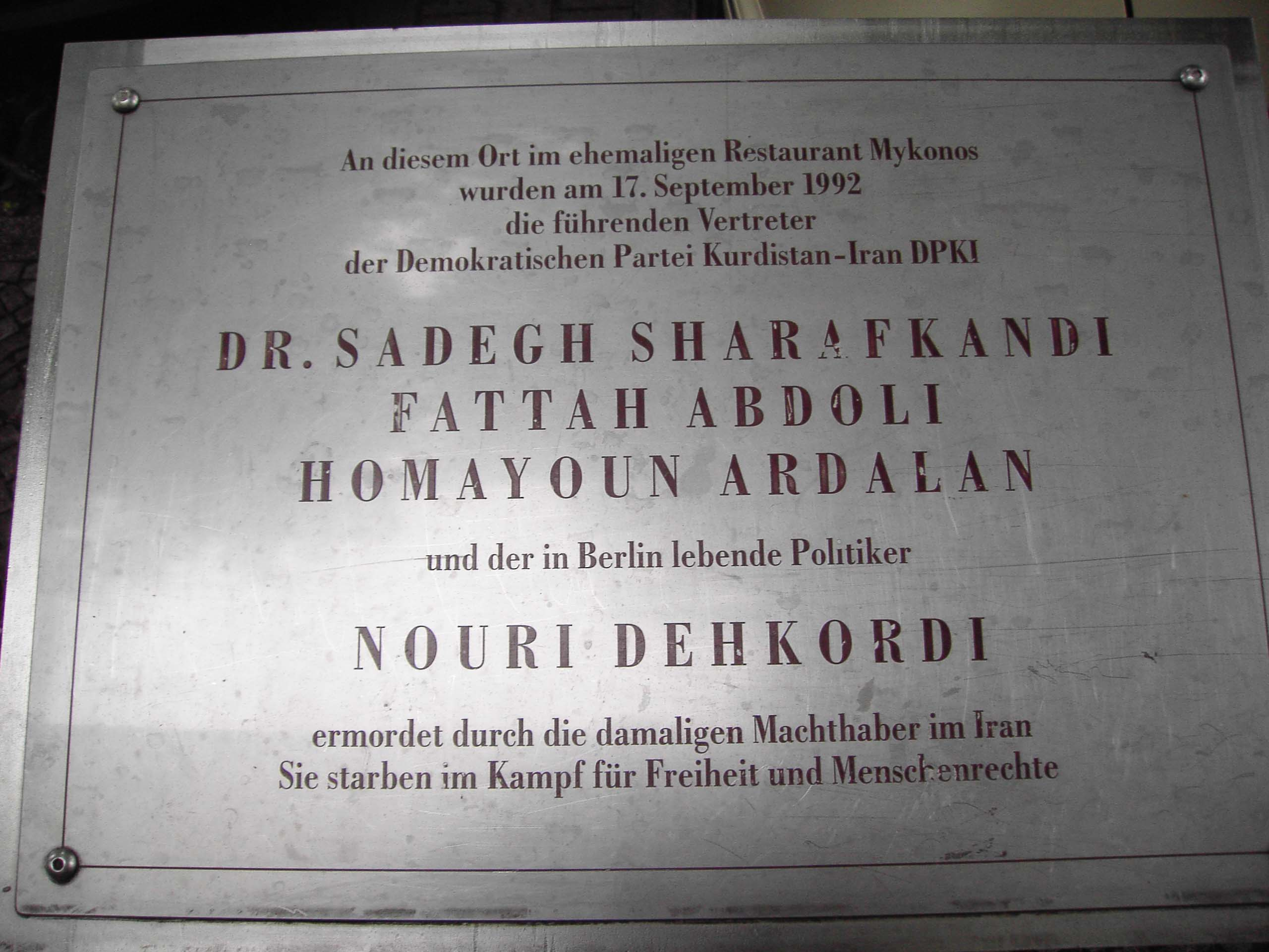 Gedenktafel for the victims citizens of Berlin of the Mykonos assassination attempt.